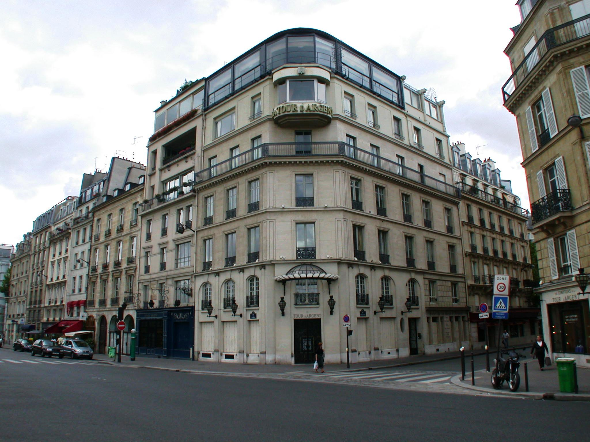 The restaurant Tour D'Argent, Paris, France. Photo by (WT-shared) Riggwelter, August 2006. Was in category Paris (France) on wikivoyage